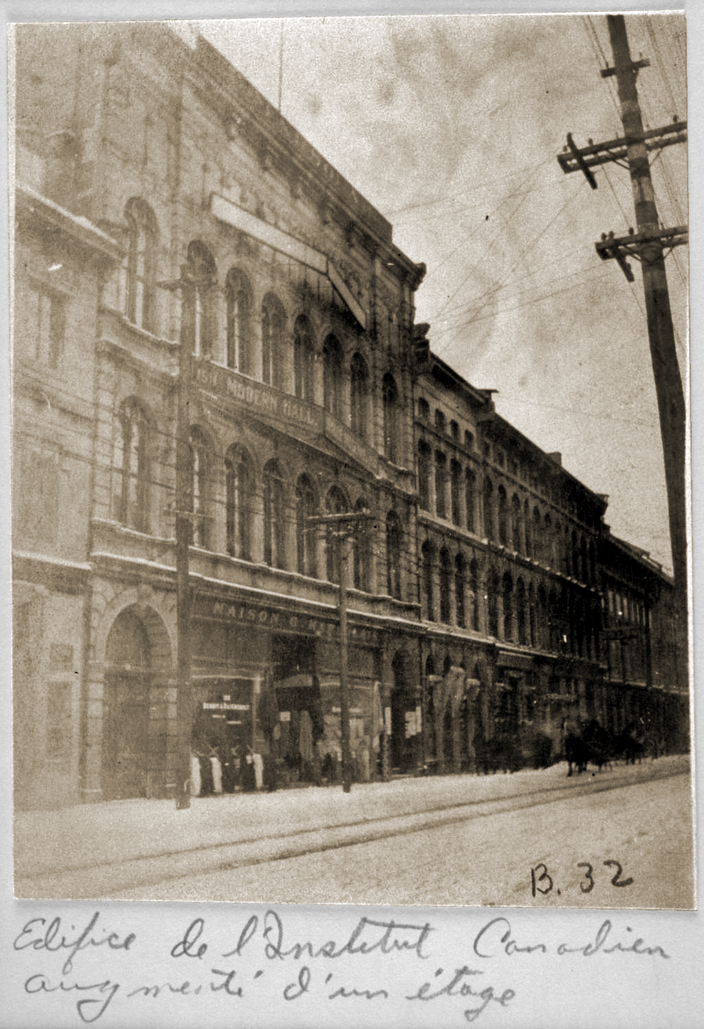 Picture taken from the Edouard-Zotique Massicotte's streets albums containing more than six thousand illustrations specifically about Montreal and covering the 1870 to 1920 period